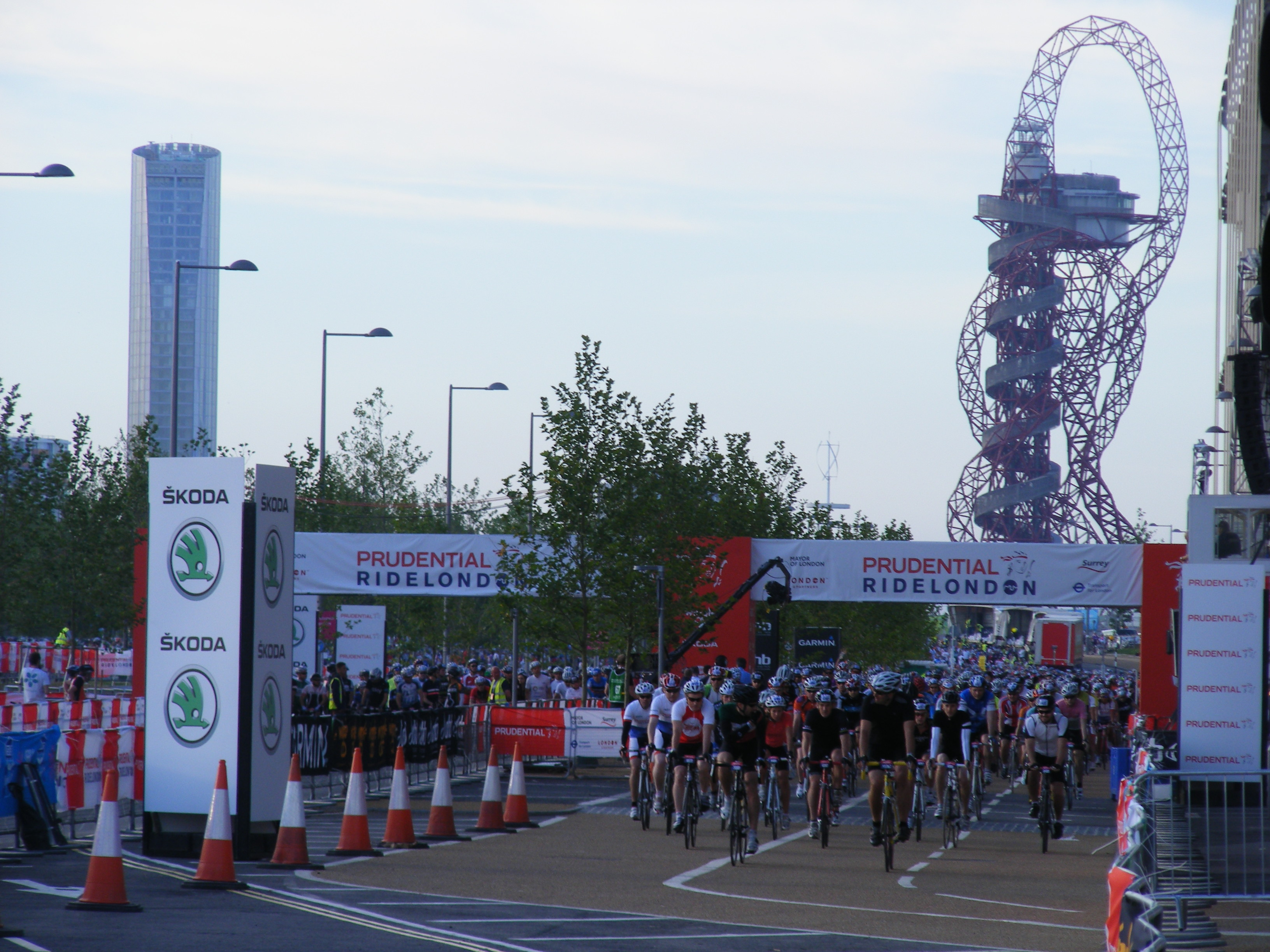 Olympic Park start, orbit in the background